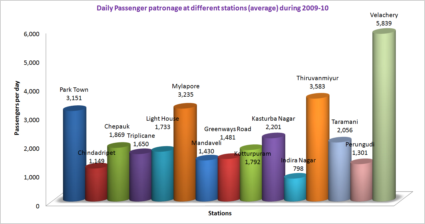 This chart shows the average daily passenger patronage of MRTS, Chennai at various stations during 2009-10. Regarding creation of image: The chart was created using Microsoft Excel and was later saved as jpg. The data is from Southern Railways accessed through "The Hindu, Chennai" newspaper, dated 10 August 2010 (The newspaper article is available online at